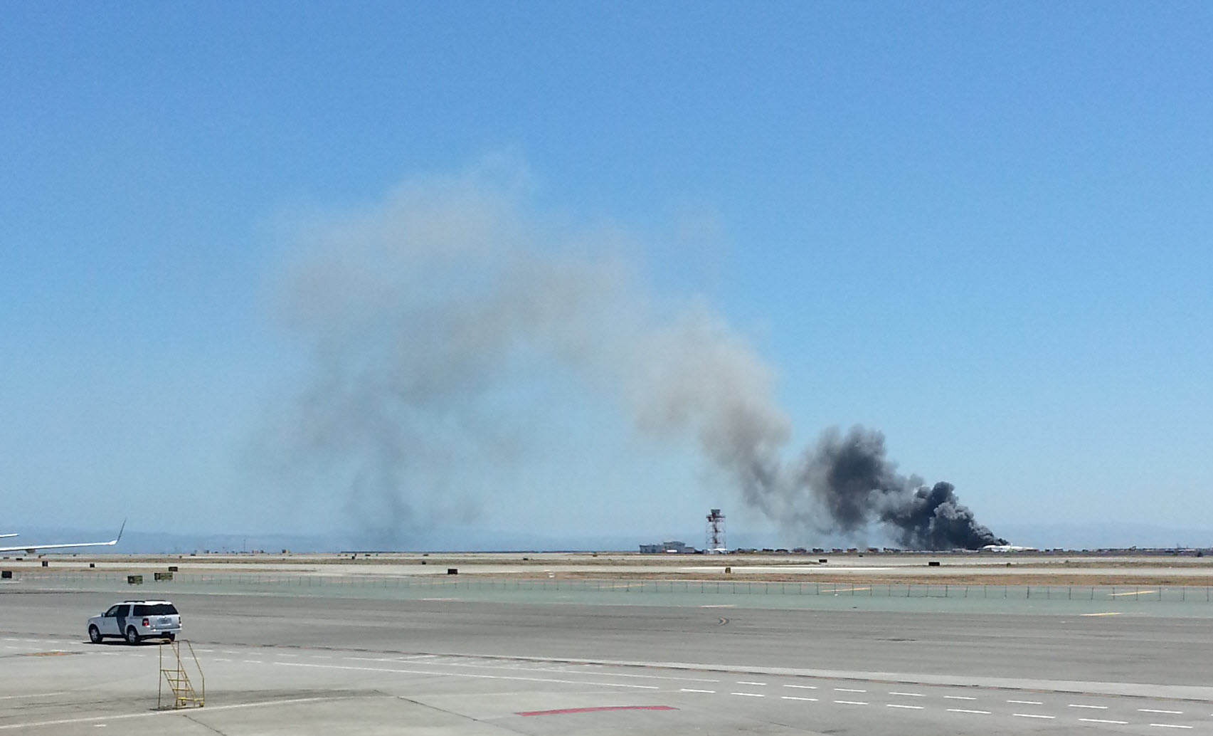 Asiana Flight 214 from Southwest Gates